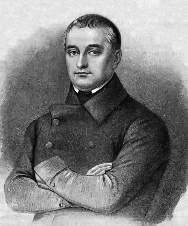 A 19th-century portrait of Dmitry Buturlin (1790-1849).